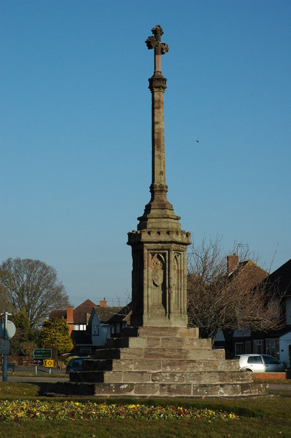 White Cross, Hereford